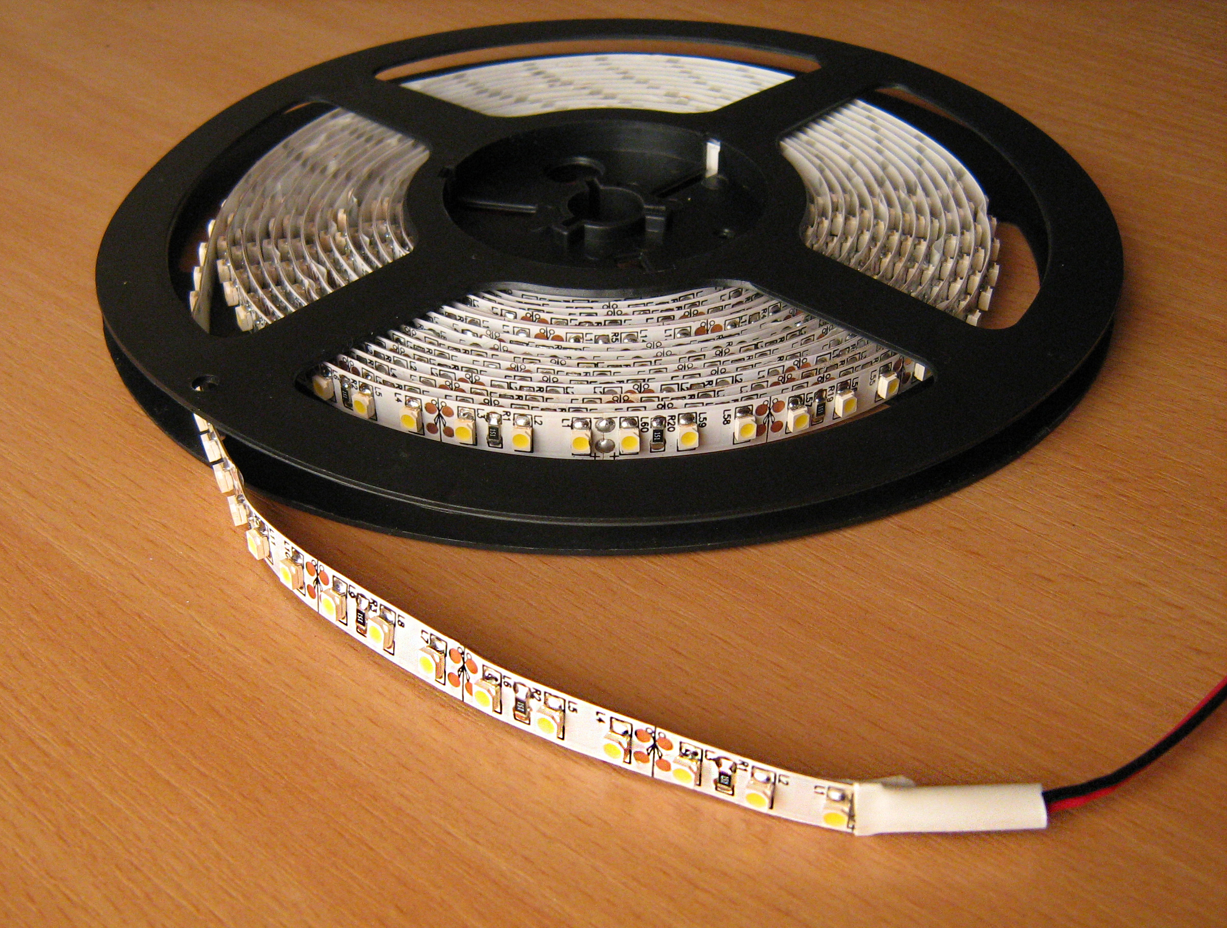 LED strip on reel